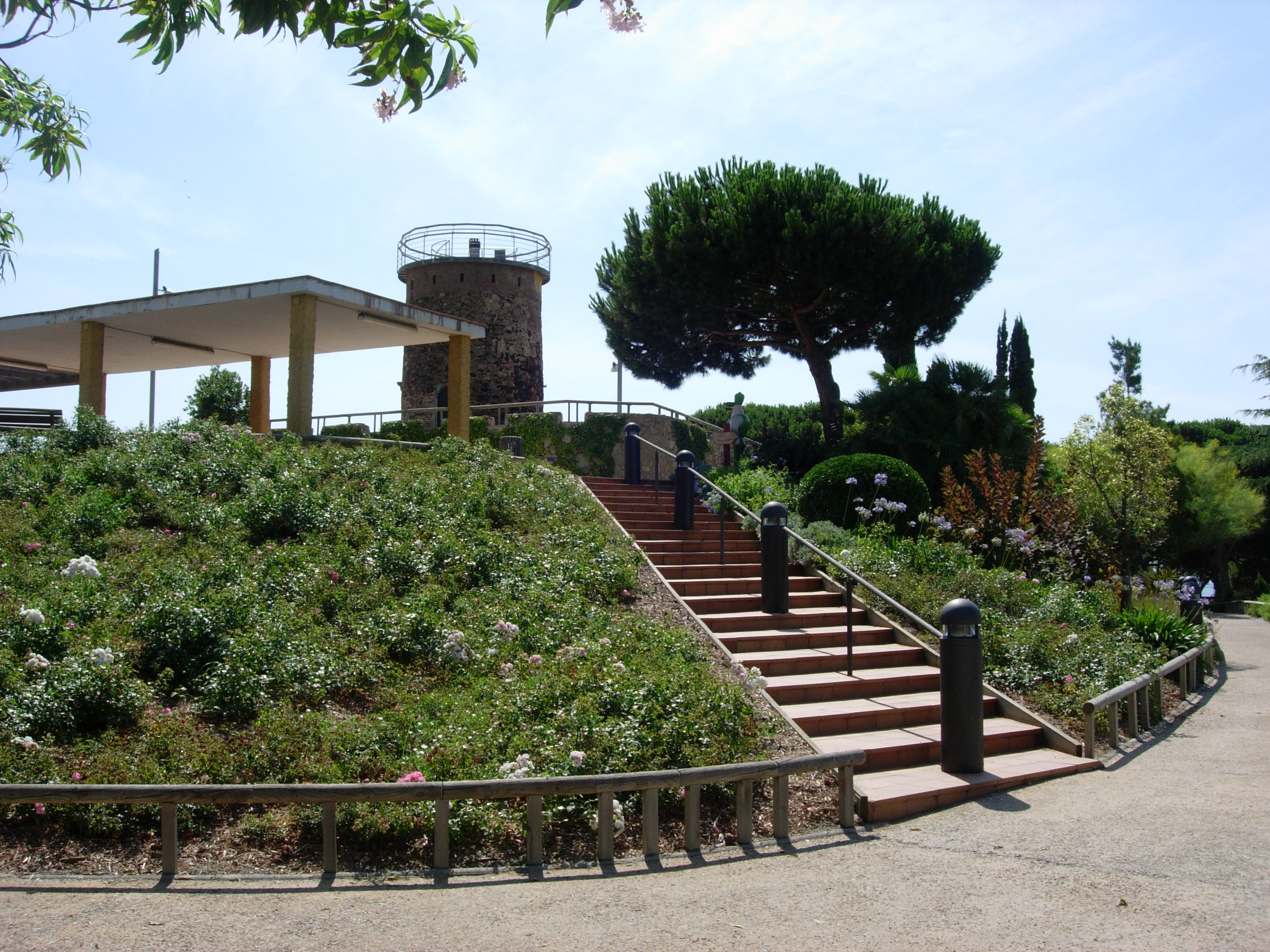 Malgrat de Mar - Parc del Castell - a view.